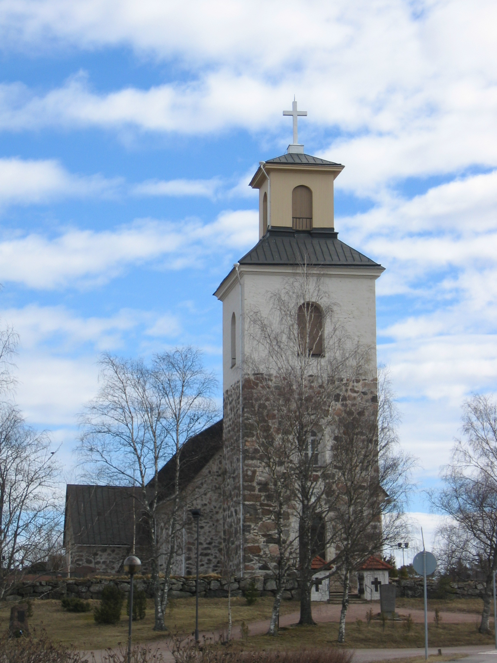 Church of Mietoinen, Finland seen from the west